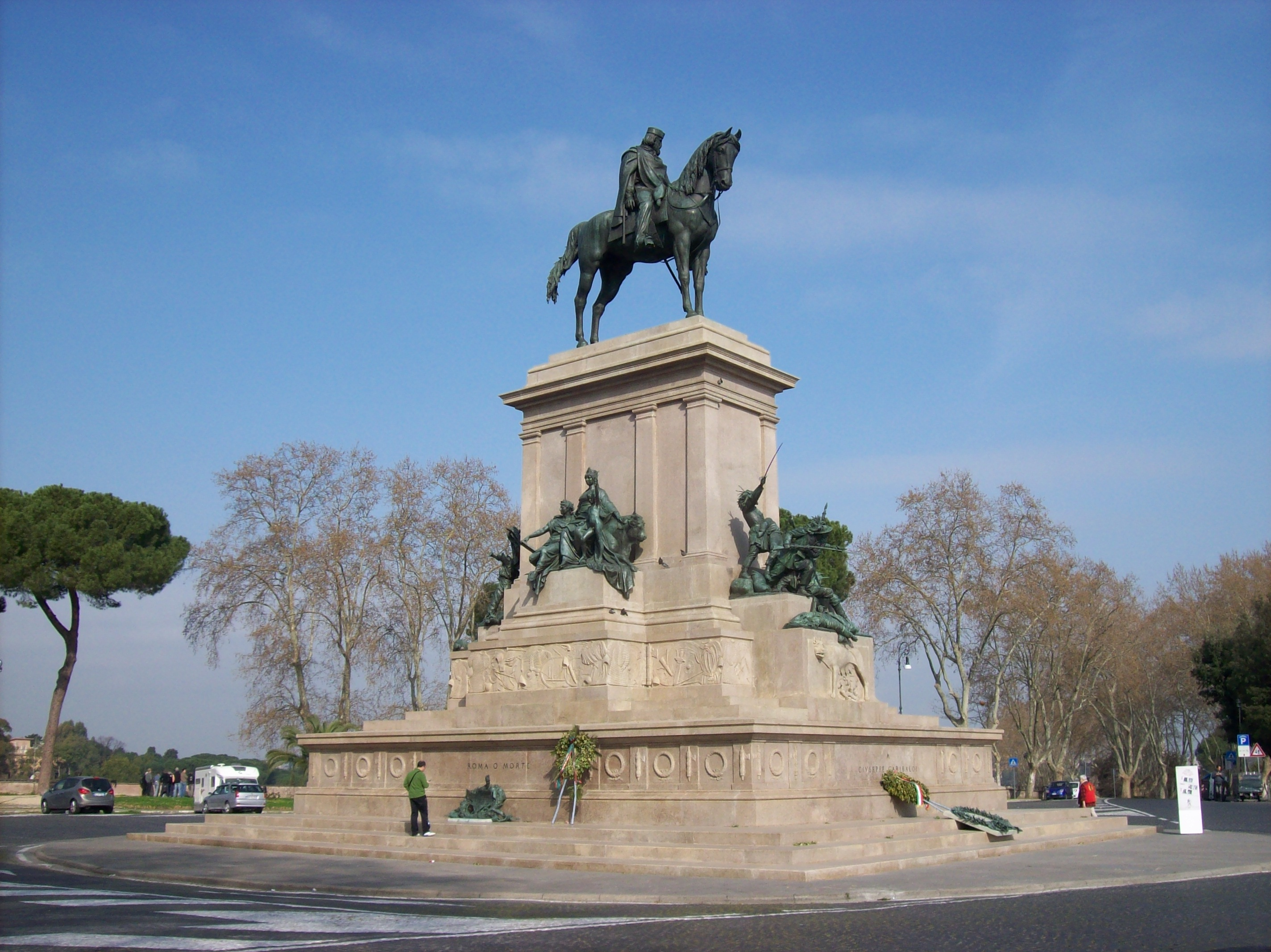 Emilio Gallori’s bronze statue of Giuseppe Garibaldi (built 1895) atop of the Gianicolo Hill, Rome